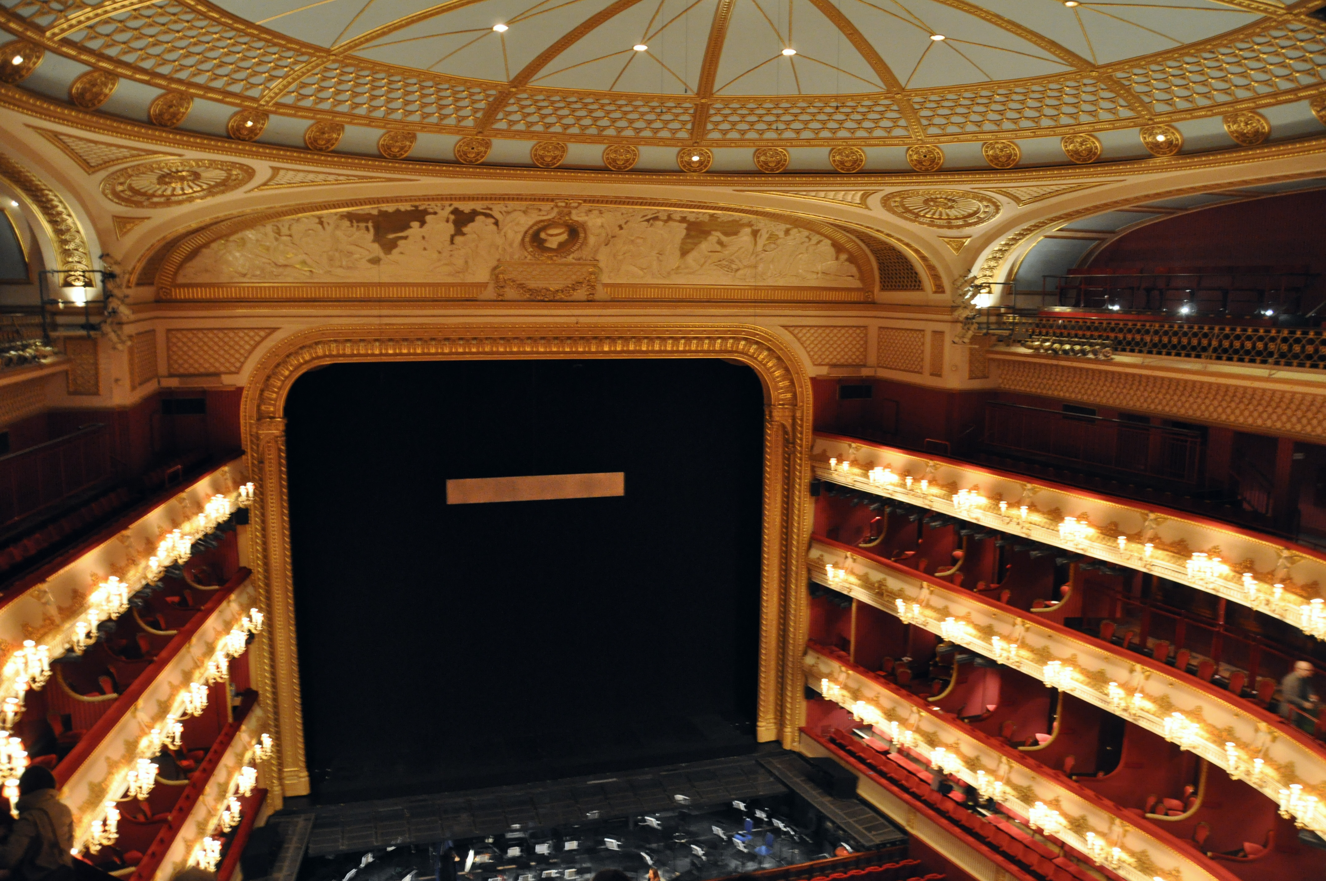 London, Royal Opera House, Covent Garden, auditorium, view from the balcony towards the stage